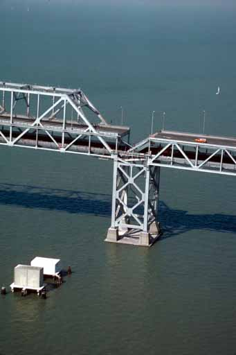 Aerial view of roadbed collapse near the interface of the cantilever and truss sections of the San Francisco-Oakland Bay Bridge. View northwestward. Cropped from original version to better fit San Francisco–Oakland Bay Bridge article.